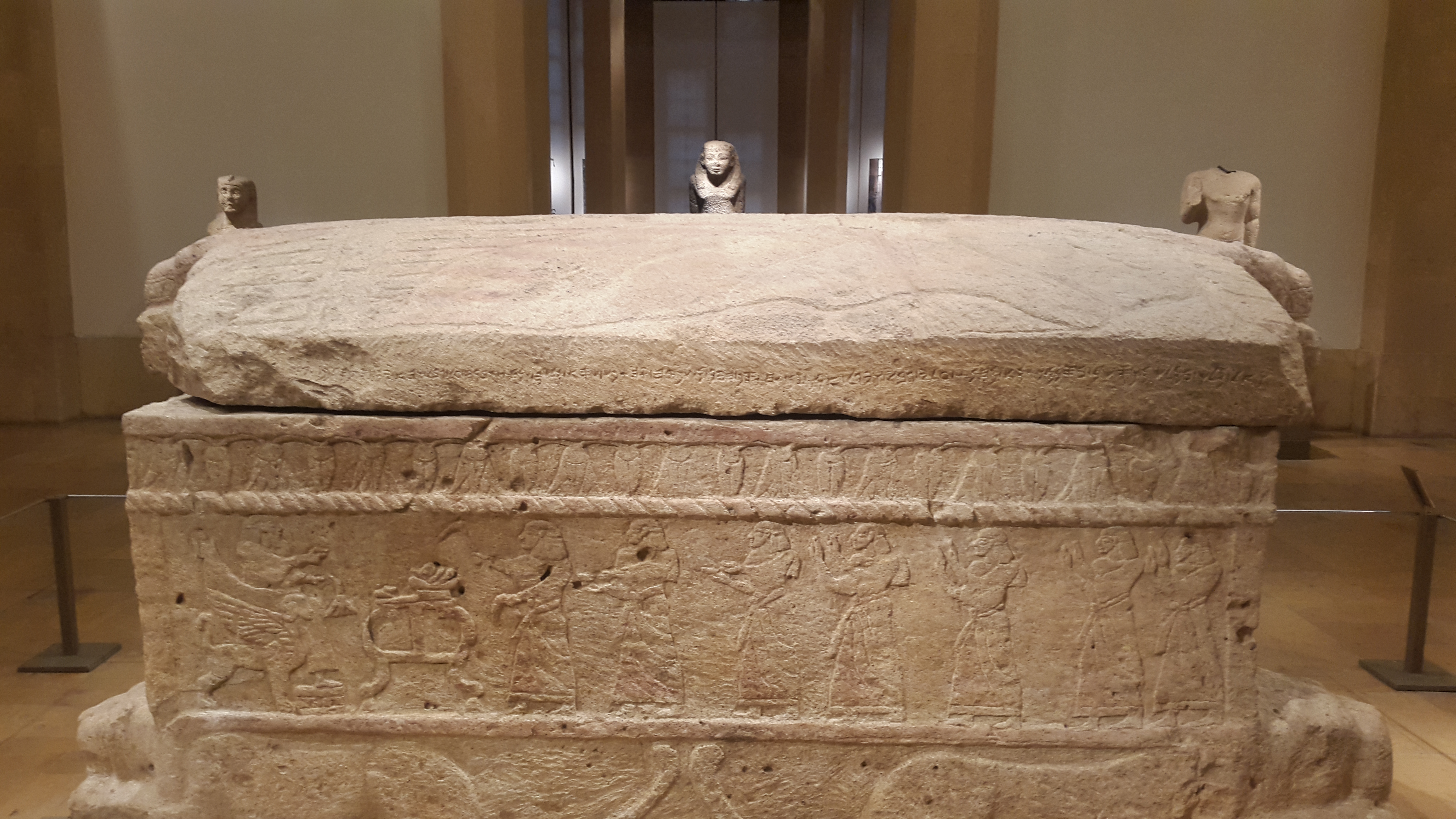 Sarcophagus with Phoenician writing from Byblos